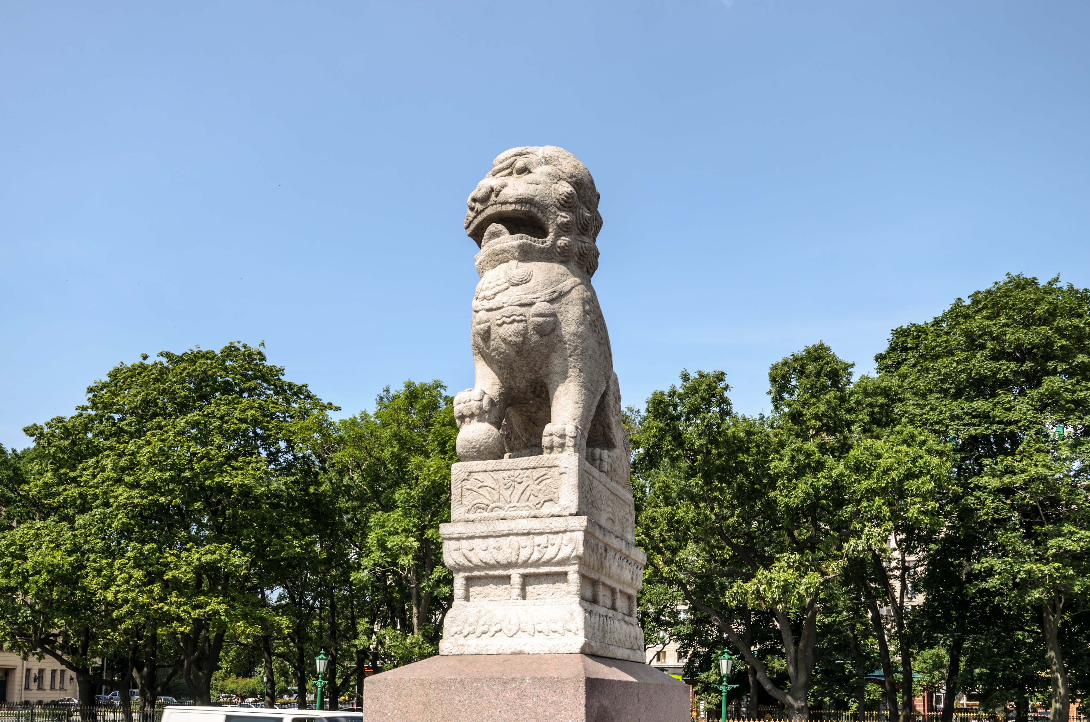 Chinese guardian lion at Petrovskaya Embankment in Saint Petersburg